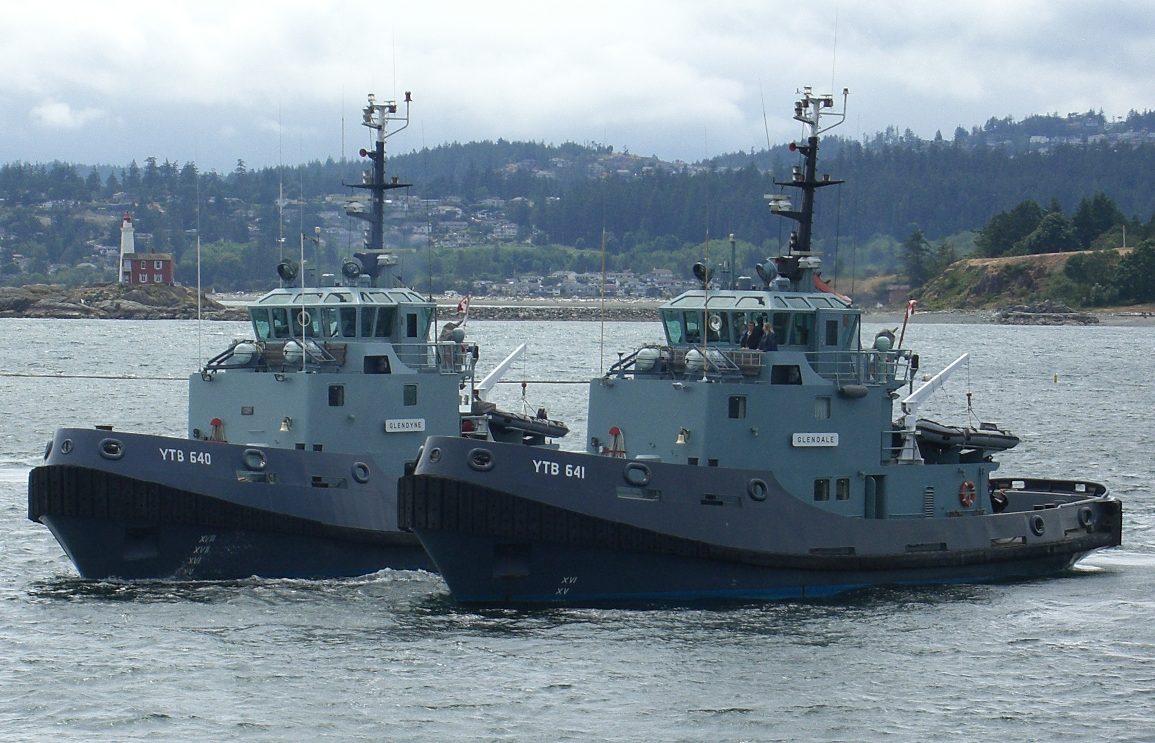 Canadian Naval Tugs Glendale and Glendyne in Esquimalt Harbour taken from deck of HMCS Esquimalt with Fisgard Lighthouse in background